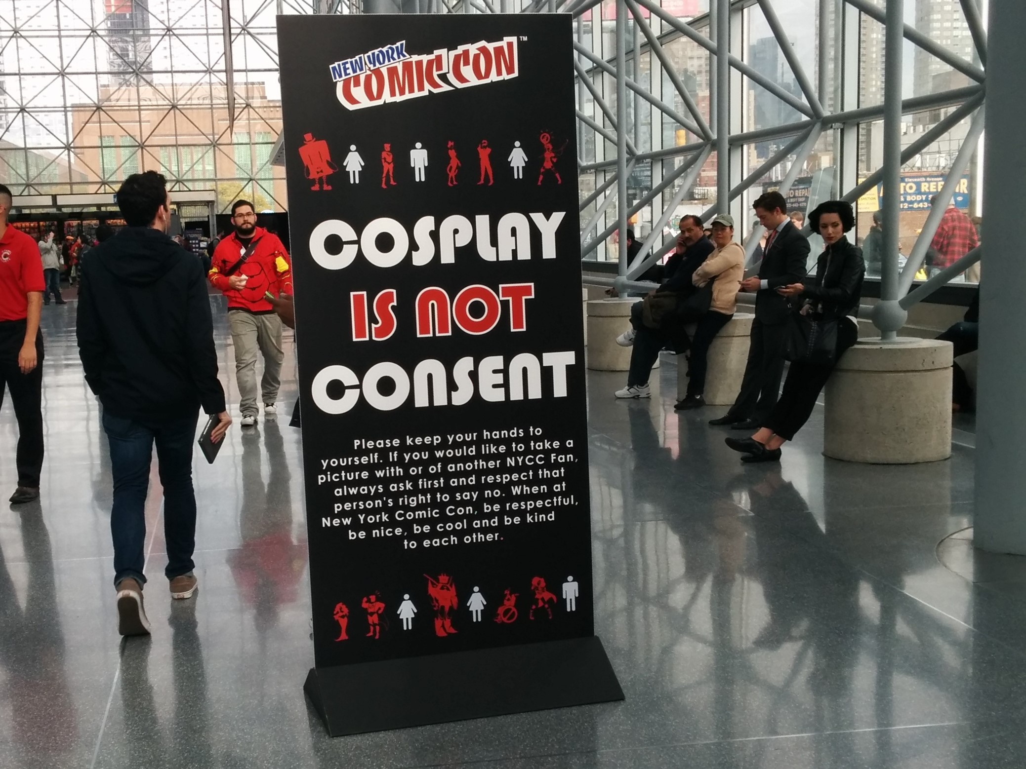 "Cosplay Is Not Consent" sign at the 2014 New York Comic Con. Large print reads "Cosplay Is Not Consent"; small print reads "Please keep your hands to yourself. If you would like to take a picture with or of another NYCC Fan, always ask first and respect that person's right to say no. When at New York Comic Con, be respectful, be nice, be cool and be kind to each other."